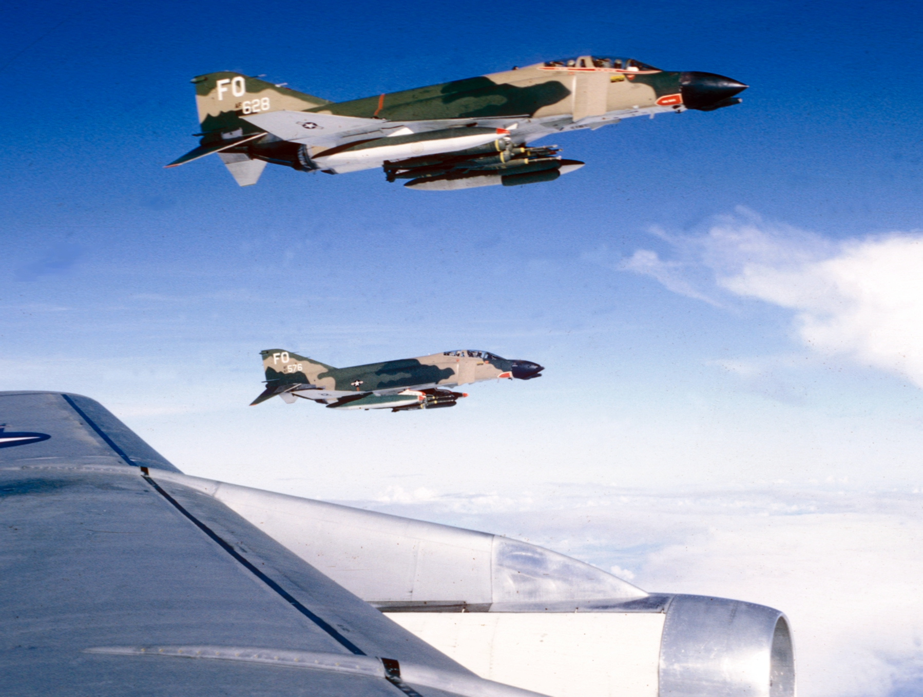 Two U.S. Air Force McDonnell F-4D-30-MC Phantom II fighters (s/n 66-7576, 66-7628) from the 435th Tactical Fighter Squadron, 8th Tactical Fighter Wing, over Vietnam, off the wing of a Boeing KC-135A Stratotanker. Both Phantoms are armed with three SUU-30/B cluster bombs (right wing), three LAU-3 rocket launchers (left wing) and six Mk 82 227 kg bombs (centerline). F-4D 66-7576 was written off in Vietnam on 30 July 1972.